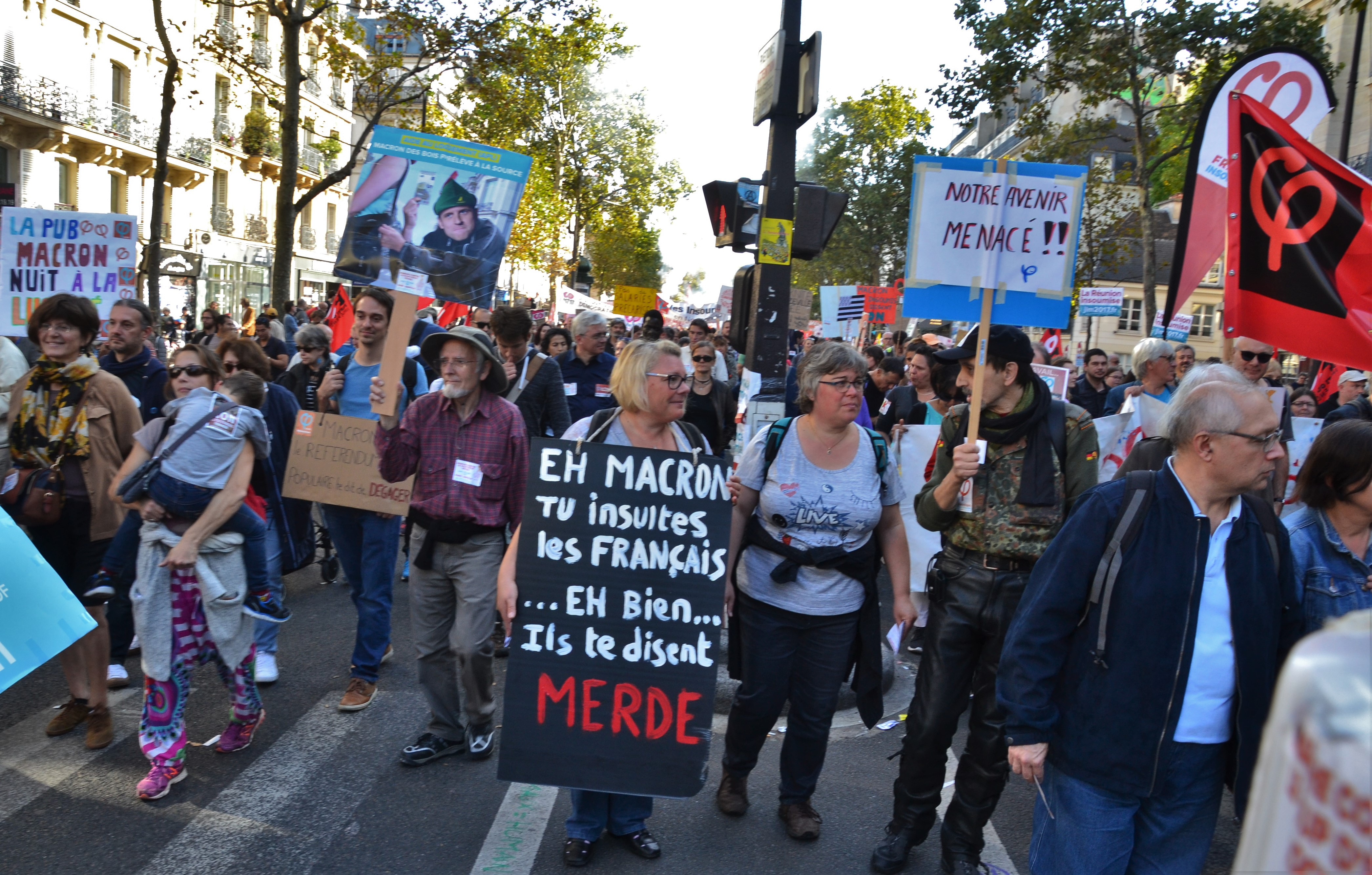 Protesting against President Emmanuel Macron’s unpopular labour reforms in central Paris. This reform aims to make workers more precarious and easy to fire. Marche du 23 septembre 2017 à l'appel des Insoumis et de Mélenchon